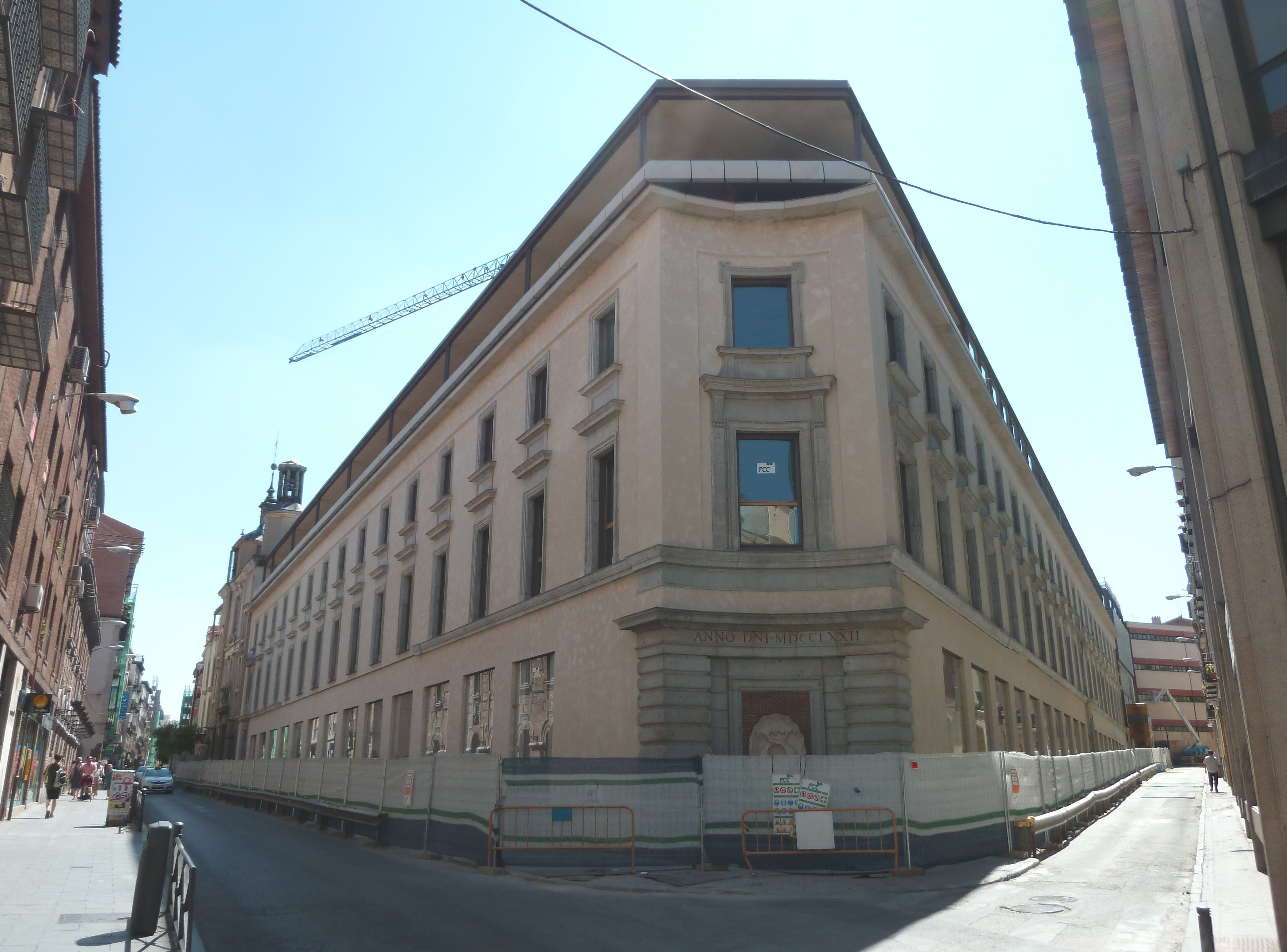 View, from the north-east angle, of St. Anthony Piarist School in Madrid (Spain) under restoration.